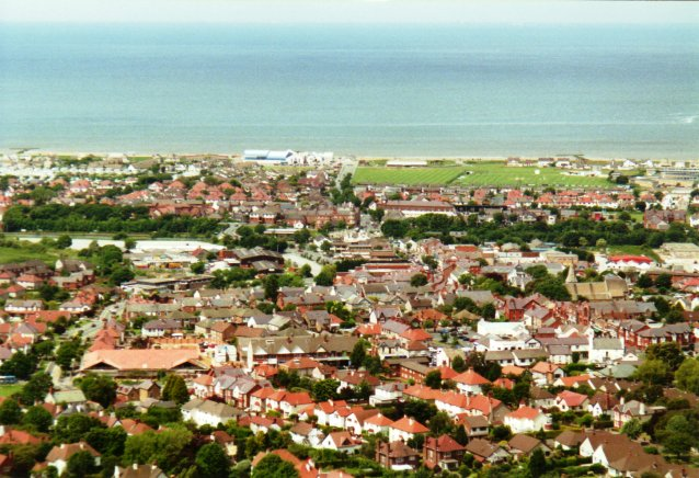 And this is Prestatyn The last view for Offa's Dyke walkers high above Prestatyn. Here the route to the finish can be traced past the church in the middle right, over the railway line in the centre then positively skip down Ffordd-las, High Street and Bastion Road to dip ones feet in the sea.